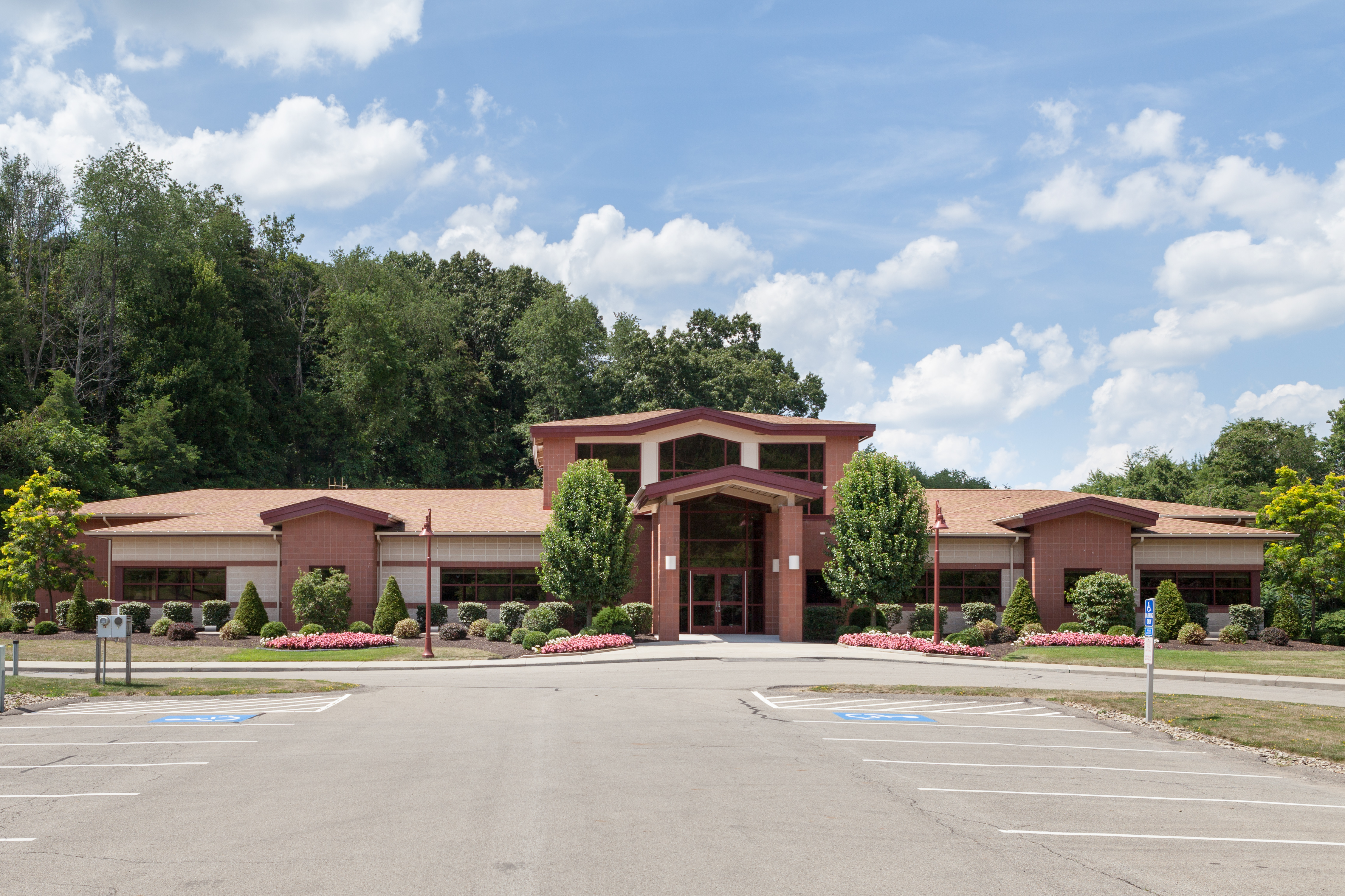 Municipal Building, Richland Township, Allegheny County, Pennsylvania at 4019 Dickey Rd, Gibsonia, PA 15044